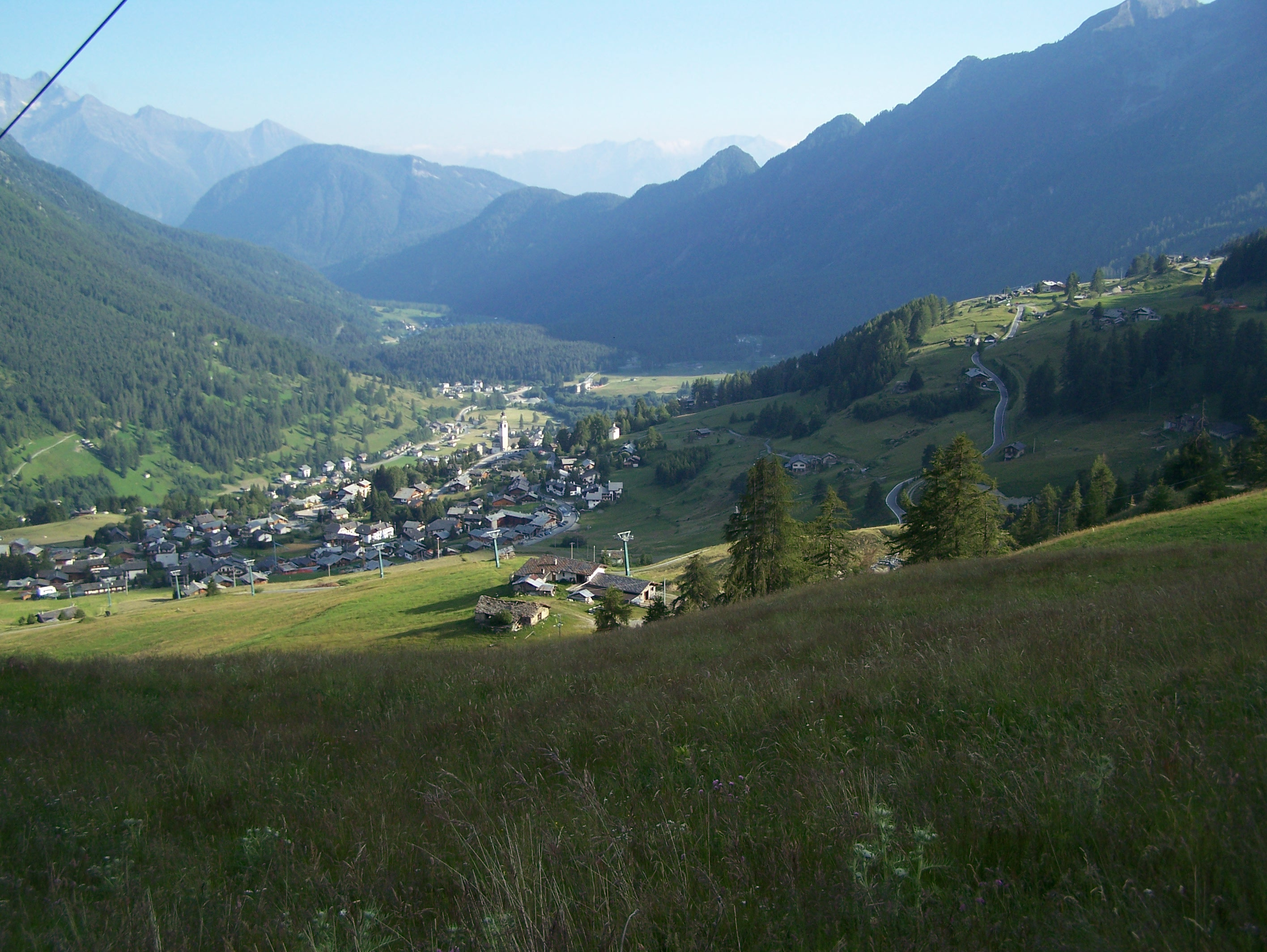 Antagnod, in the municipality of Ayas, Aosta Valley, Italy